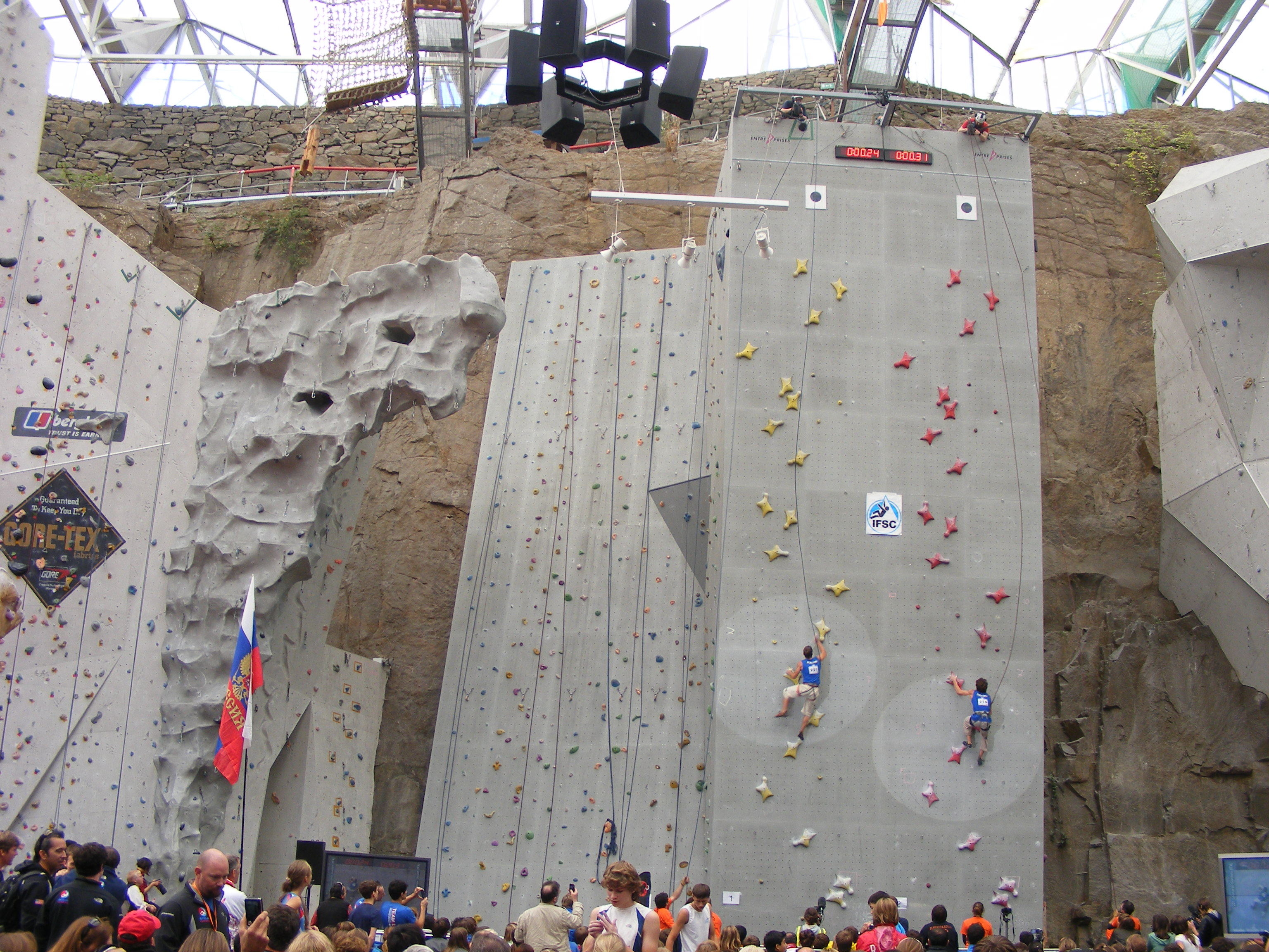 Climbers head up the speed wall during the 2010 IFSC World Youth Championship. Edinburgh International Climbing Arena. Ratho, near Edinburgh, Scotland.